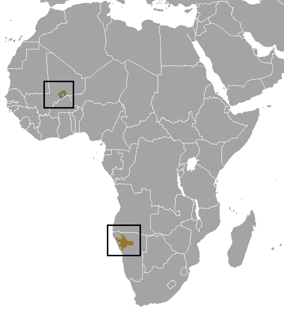 Desert_elephant_map